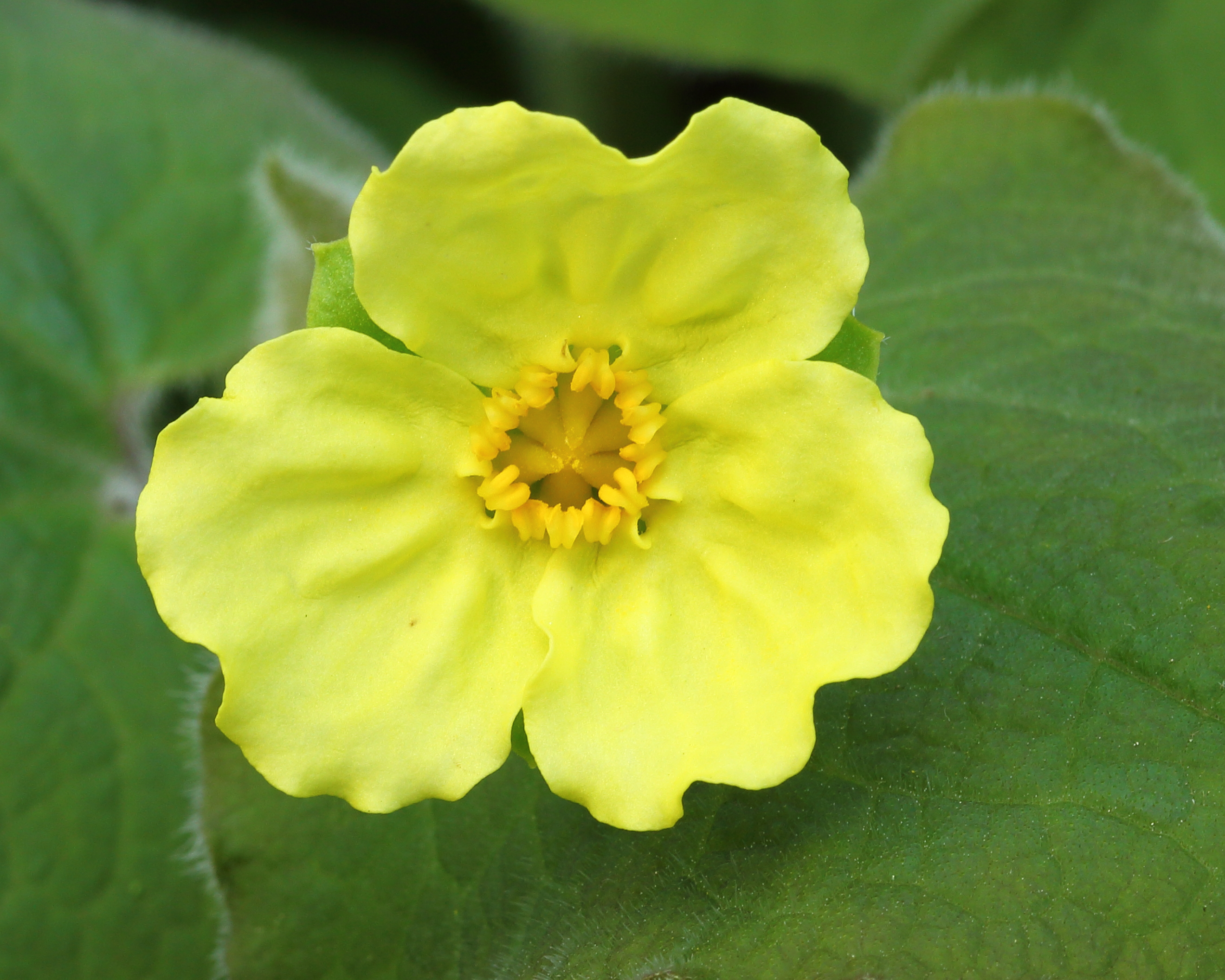 Saruma henryi. Beautiful plant in semi-shade with velvety leaves cuddly.